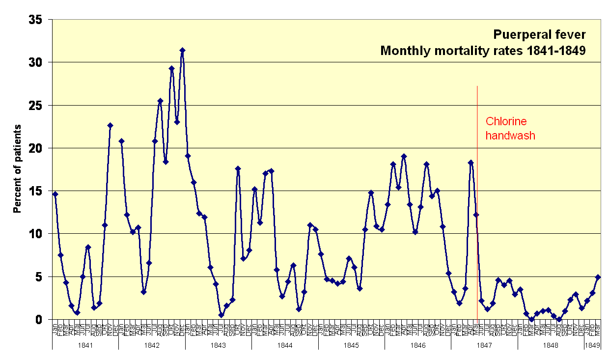 Puerperal fever monthly mortality rates for birthgiving women at the First clinic at the Vienna General Hospital 1841-1849 reported by Semmelweis. He devised and instituted a chlorine handwashing policy by mid-May 1847. His employment was terminated March 20, 1849